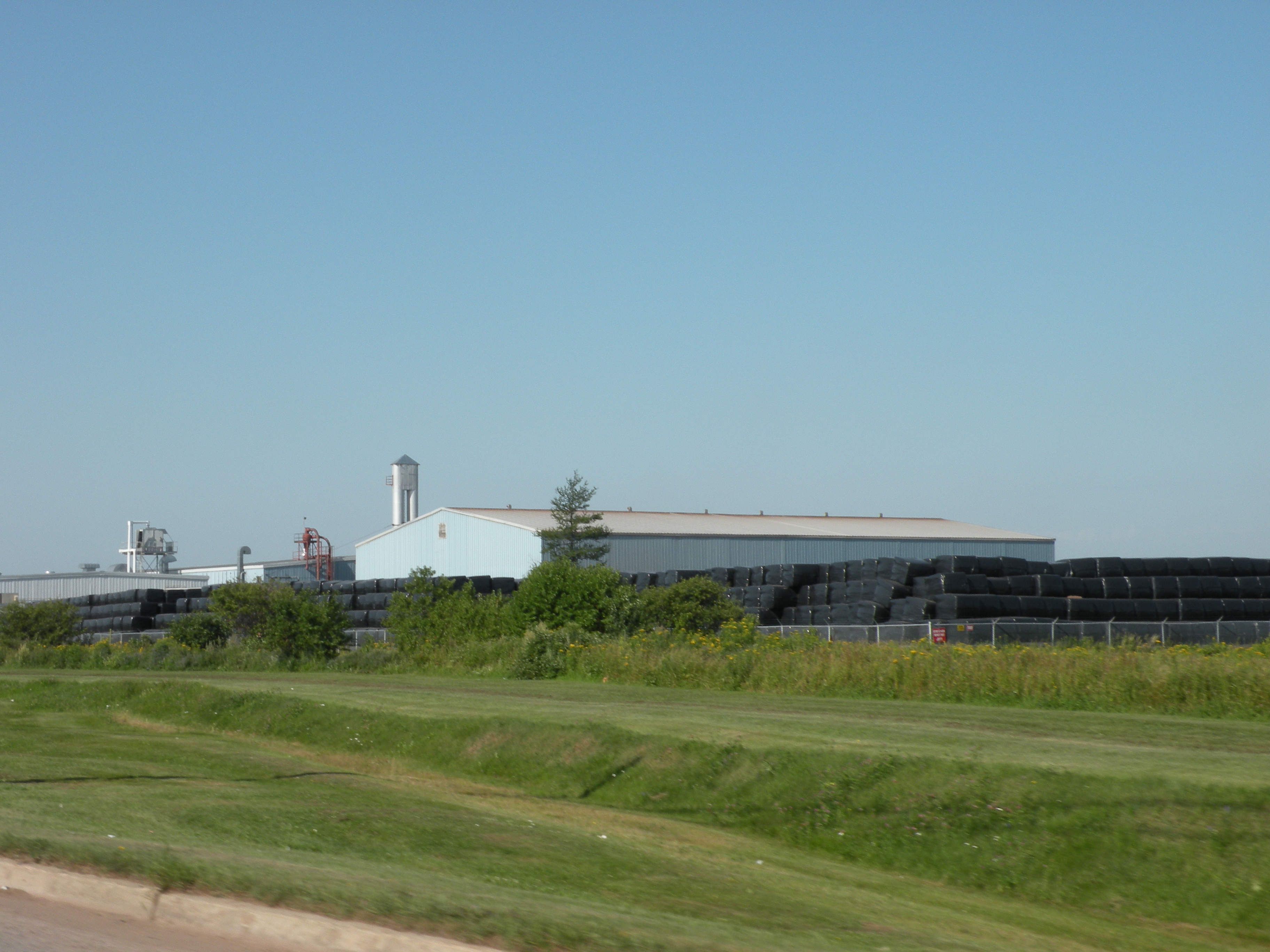 Jiffy factory in Shippagan, New Brunswick, Canada